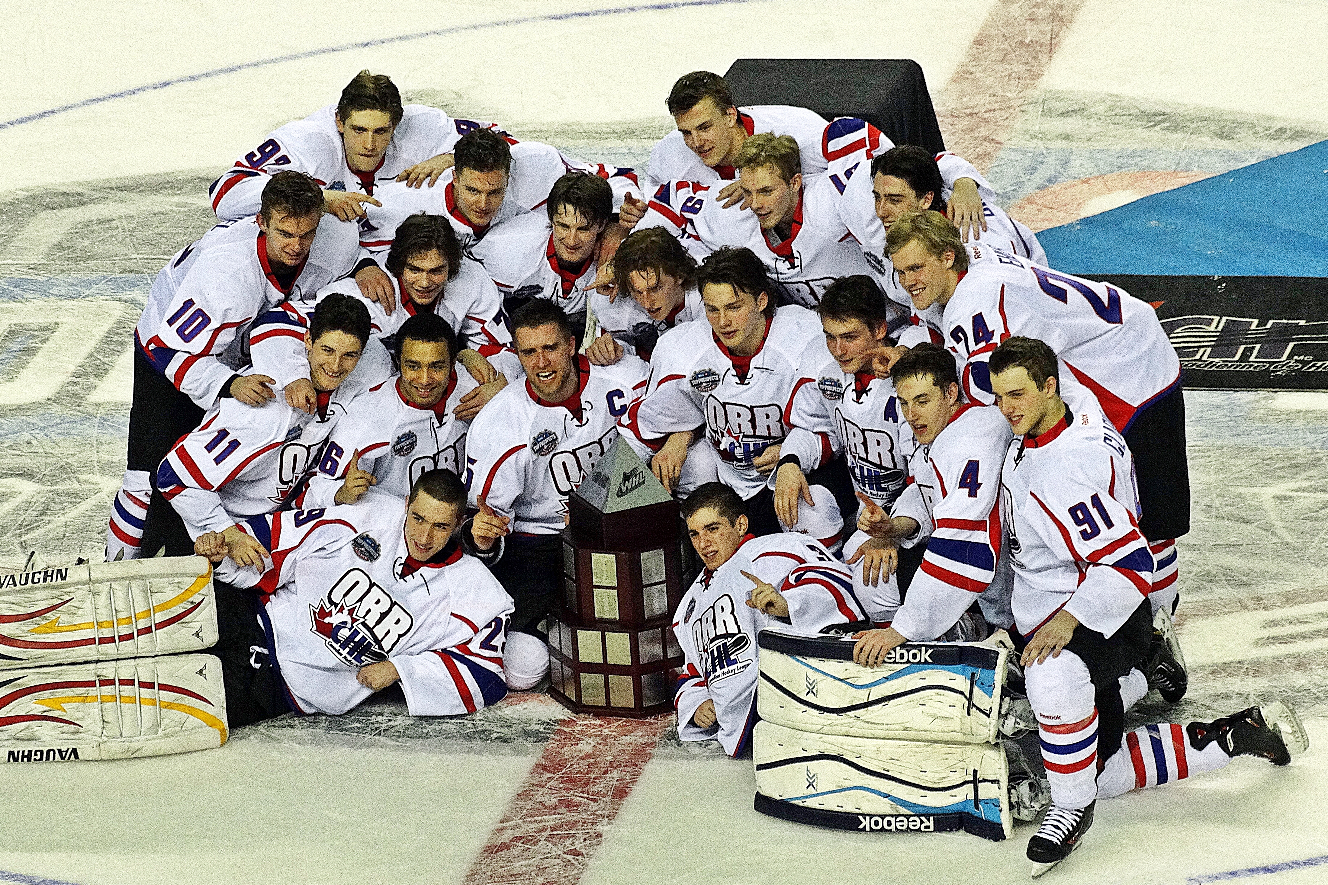 The BMO CHL/NHL Top Prospects Game is a showcase of 40 of the Canadian Hockey League’s (WHL, OHL, and QMJHL) top prospects who are eligible for the 2014 NHL Entry Draft. The 19th Annual Top Prospects Game was played on January 15, 2014 at the Scotiabank Saddledome in Calgary, Alberta, before 11,631 spectators including hundreds of NHL scouts and General Managers. It was also broadcast live across Canada on Sportsnet and TVA Sports. Team Orr defeated Team Cherry by a score of 4-3. Team Orr's head coach was Tim Hunter, with assistants Mike Vernon and Joel Otto. Team Cherry's head coach was Jim Peplinski, with assistants Paul Reinhart and Mark Hunter. Jared McCann, who scored the winning goal, was named the player of the game for Team Orr, and Nikolay Goldobin was named the player of the game for Team Cherry.